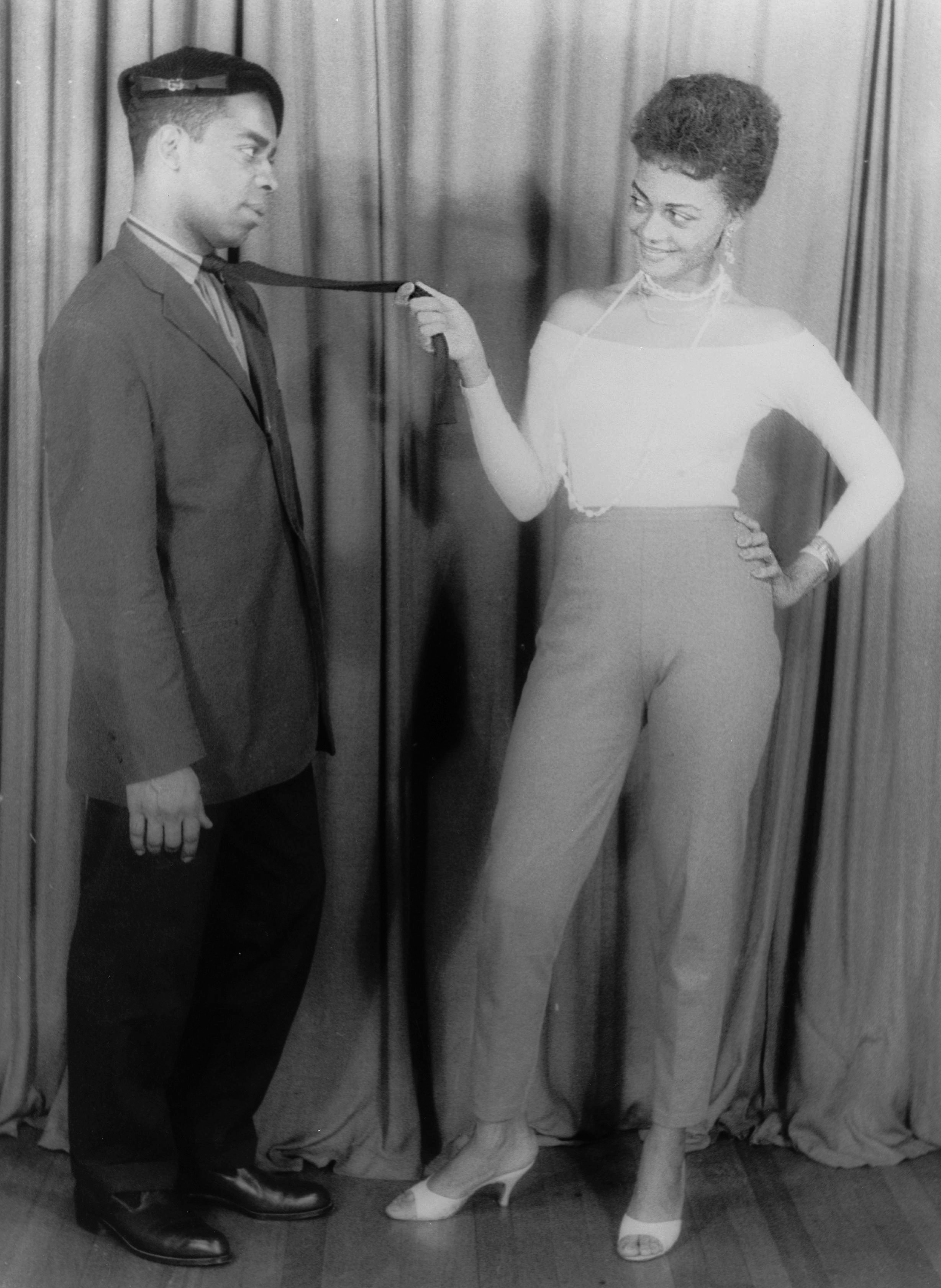 Ethel Ayler (right, b. 1934) and Melvin Stewart, as Zirata and Simple (respectively) in "Simply heavenly" by Langston Hughes cph.3c03728